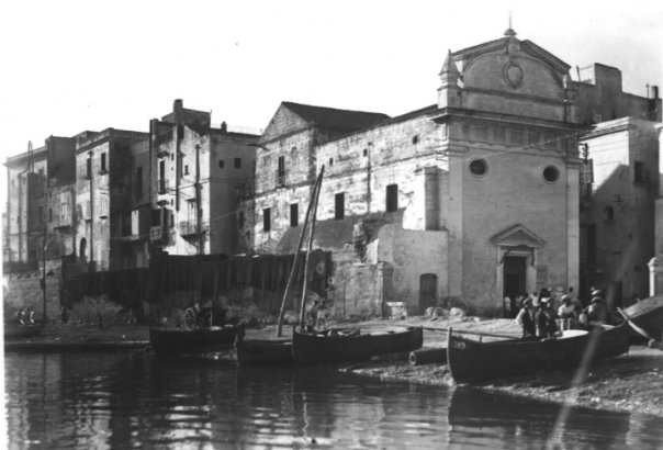 Our Lady of Peace Church destroyed in the 1934 Taranto